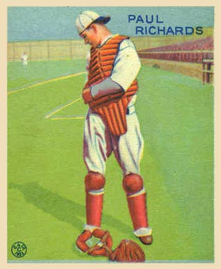 1933 Goudey baseball card of Paul Richards of the New York Giants #142. PD-not-renewed.